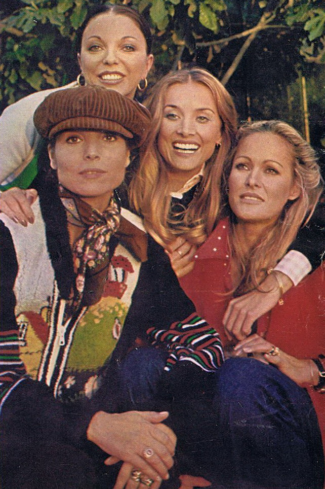 Actresses Joan Collins, Barbara Bouchet, Ursula Andress and Elsa Martinelli in Rome for a panel discussion.